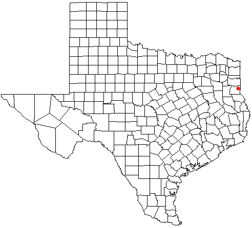 DeBerry, Texas location map; created with the GIMP. Made by User:Acntx.